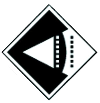 VisionArt diamond logo